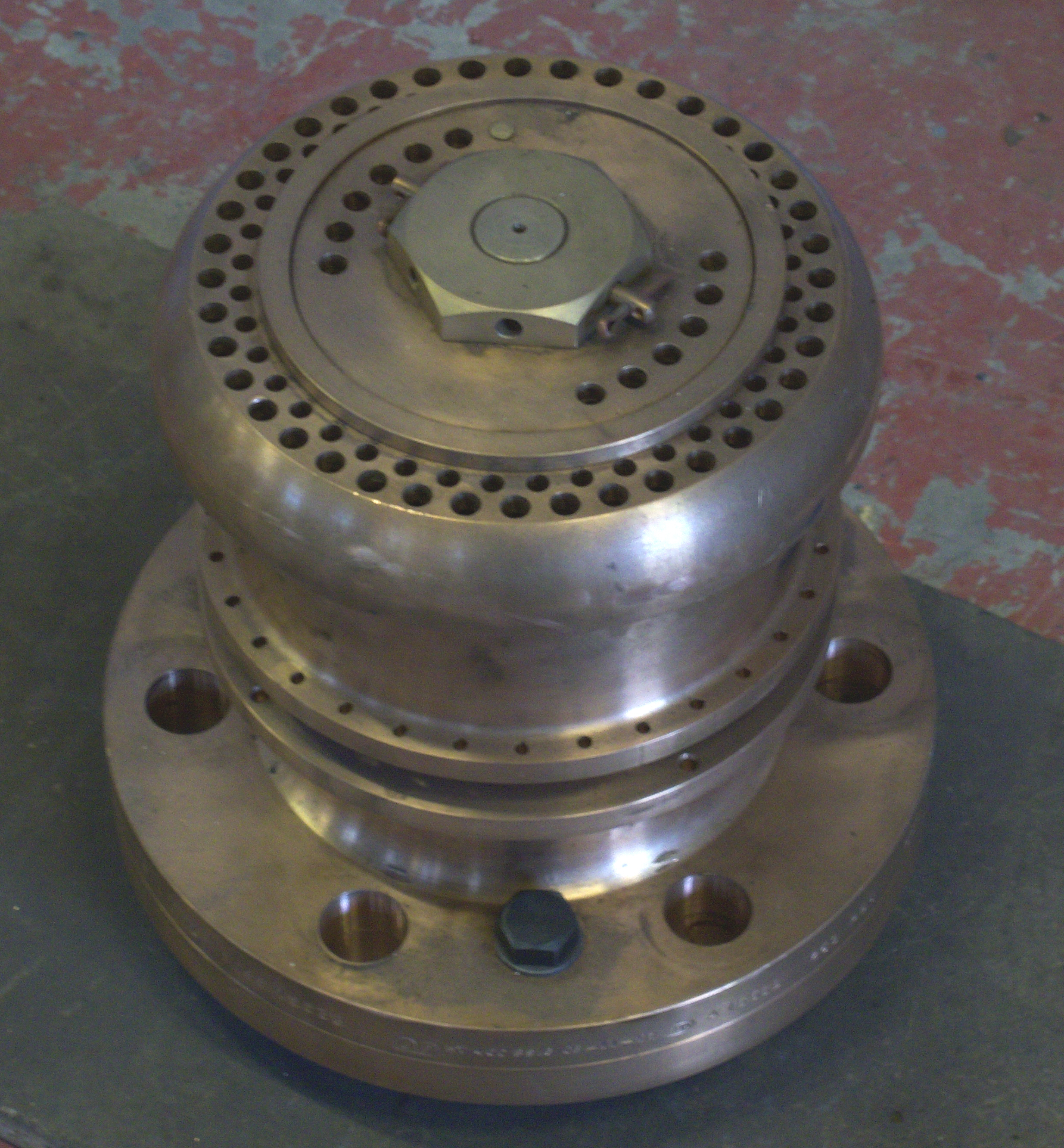 The safety valve of the steam locomotive 60163 Tornado